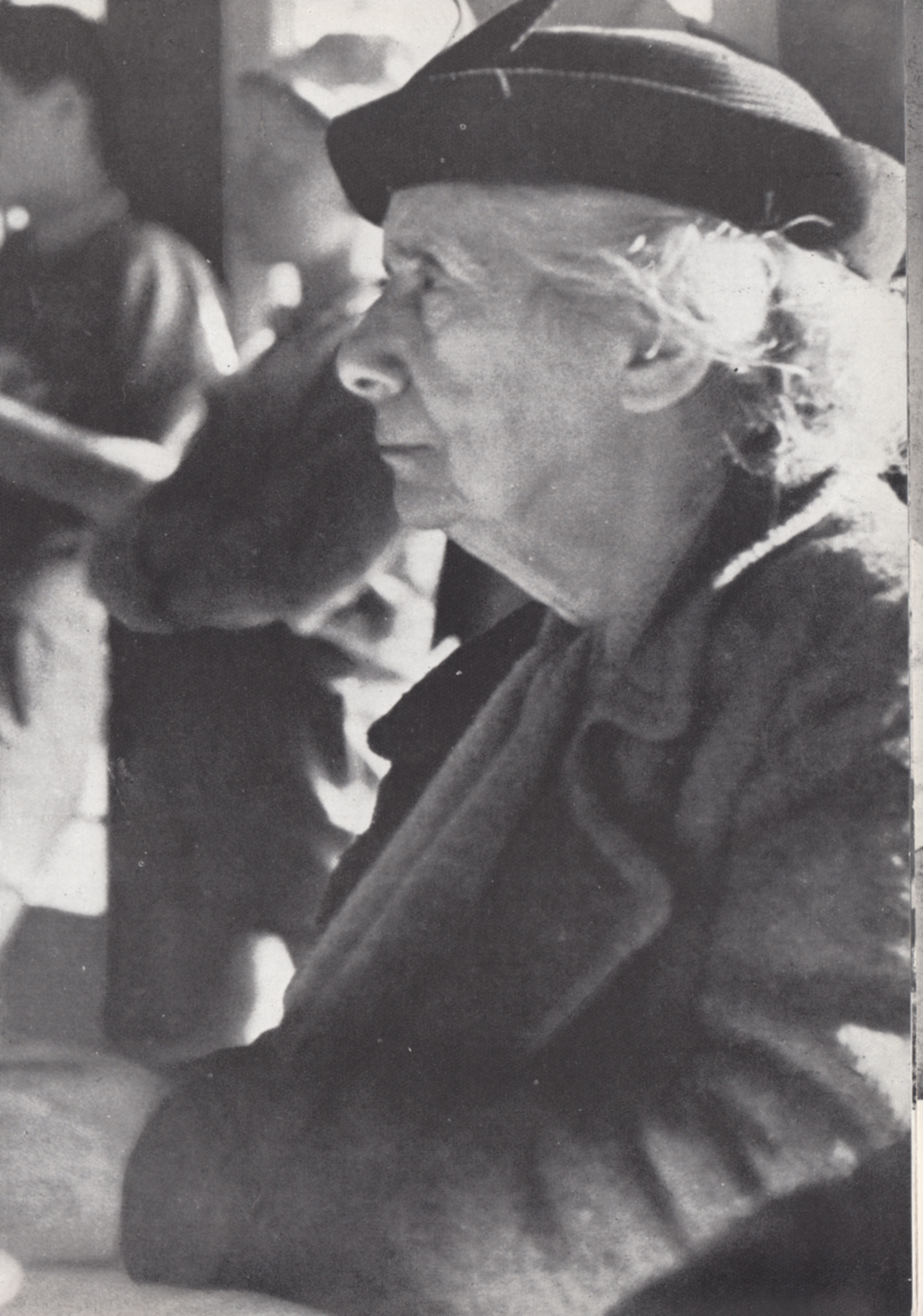 Henrietta Szold , mother of Aliat Hanoar